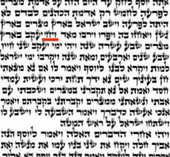 Weekly Torah portion "vayechi" begining in the middle of a paragraph in a Sefer Torah